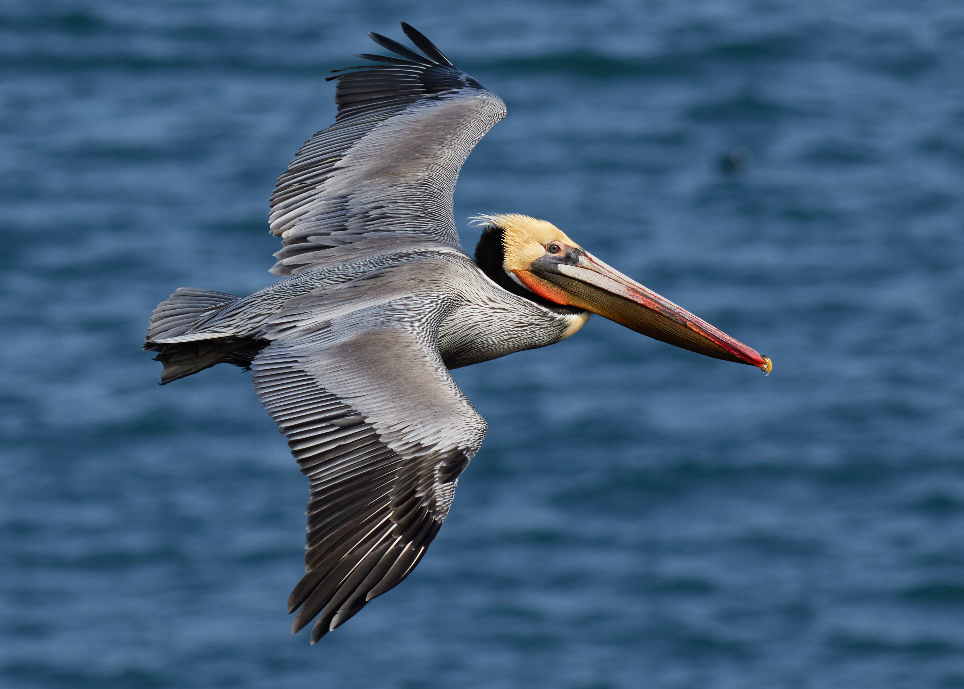 Brown pelican (Pelecanus occidentalis) in flight at Bodega Bay, Sonoma County, California.